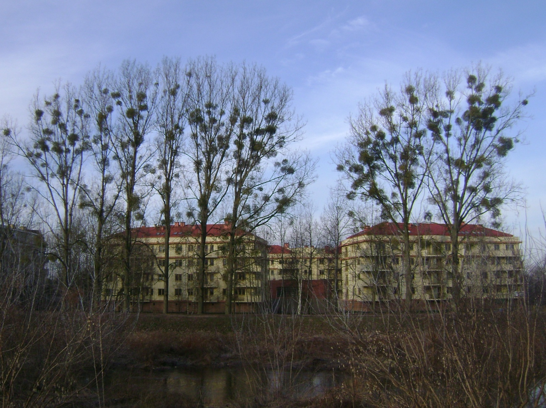 Poland. Konstancin-Jeziorna